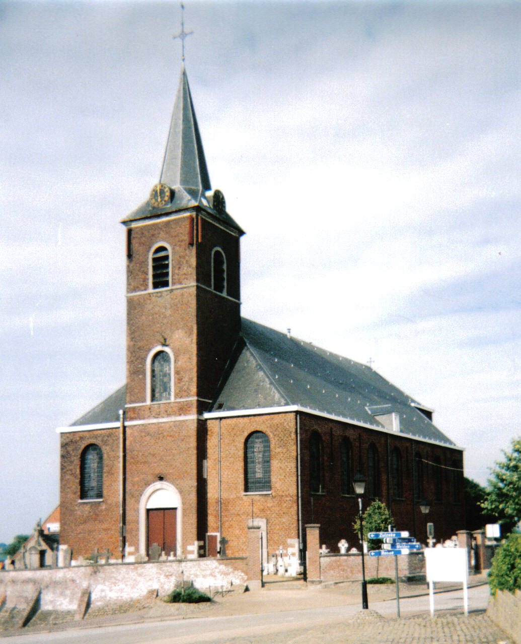 The village church of Nukerke, a submunicipality of Maarkedal, Belgium.